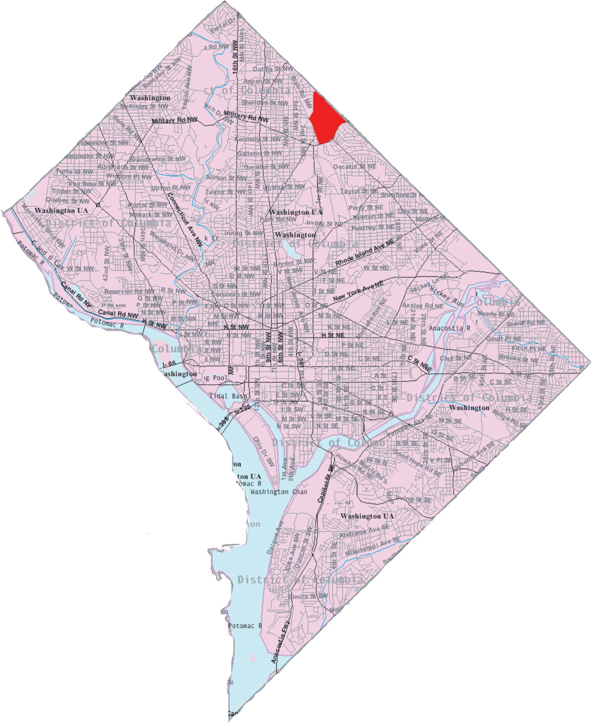 This image is a modified version of a self-generated reference map from the U.S. Census Bureau's American Factfinder at by Wikipedia user Msclguru.